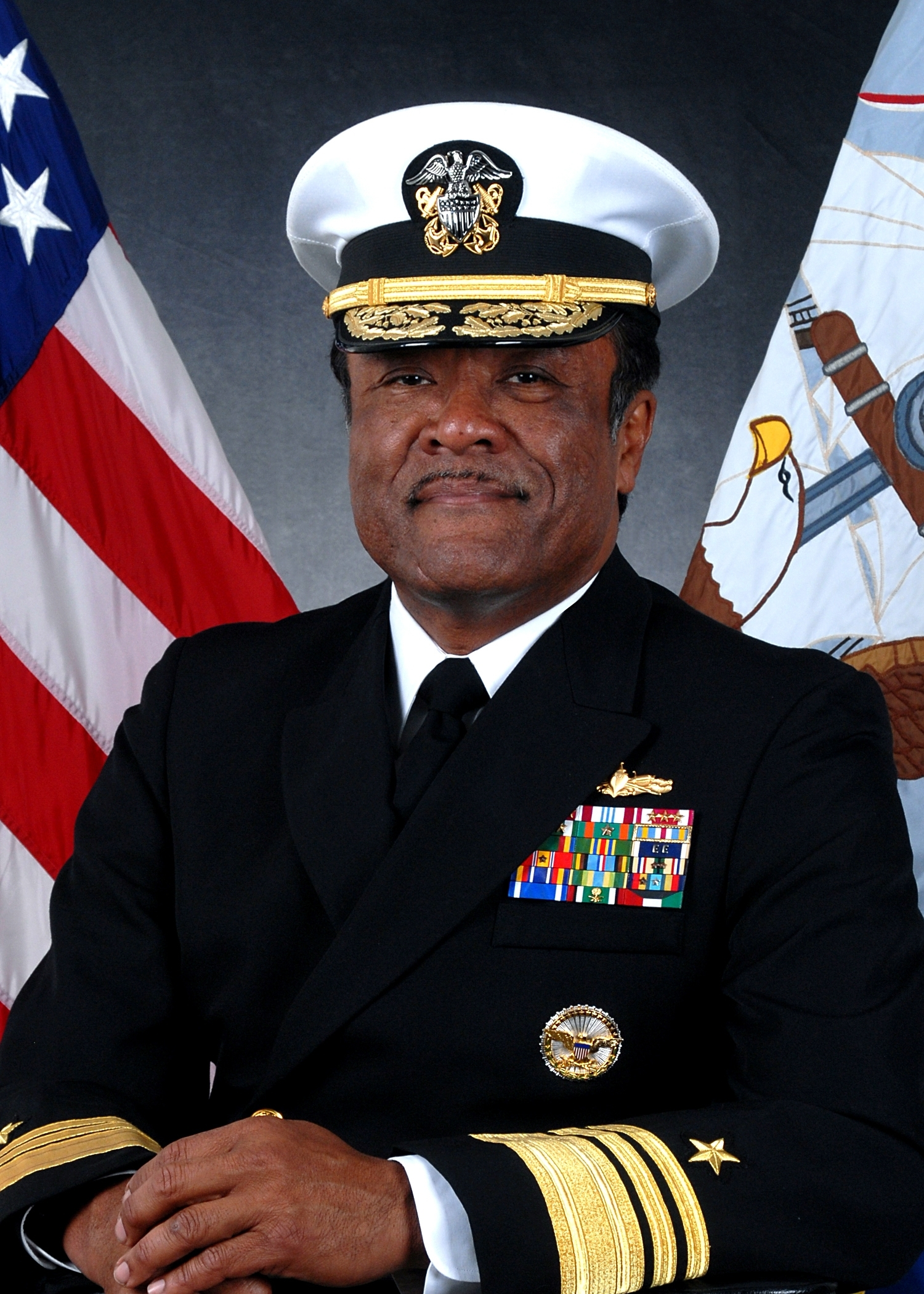 Vice Admiral D.C. Curtis, United States Navy. As of 2010, Commander, Naval Surface Forces and Commander, Naval Surface Force U.S. Pacific Fleet.